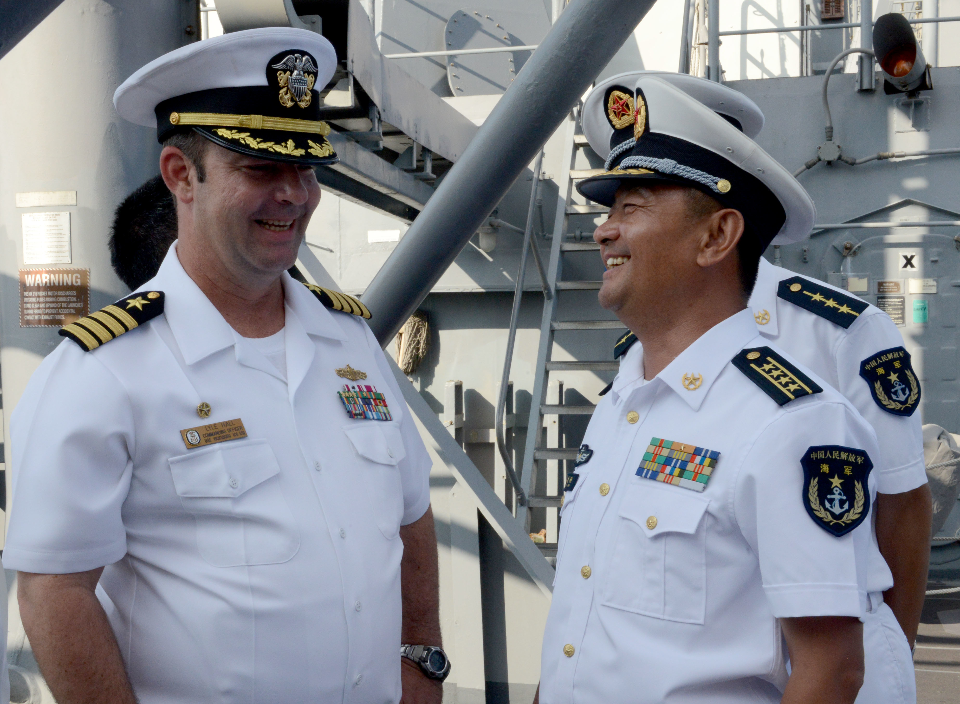 151103-N-PP197-213 MAYPORT, Fla. (Nov. 3, 2015) Capt. Lyle Hall, commanding officer of the guided-missile cruiser USS Vicksburg (CG 69) shares a laugh with Senior Captain Wang, commanding officer of the Chinese Luyang II-class destroyer Jinan (DDG 152) during a ship tour as part of a routine goodwill port visit. Foreign navy ships routinely conduct port visits to Mayport. Engagements like this demonstrate a continuous navy-to-navy bilateral relationship between our two countries. (U.S. Navy photo by Mass Communication Specialist 1st Class Stacy D. Laseter/Released) Unit: Navy Media Content Services DVIDS Tags: NMCS; DVIDS Bulk Import